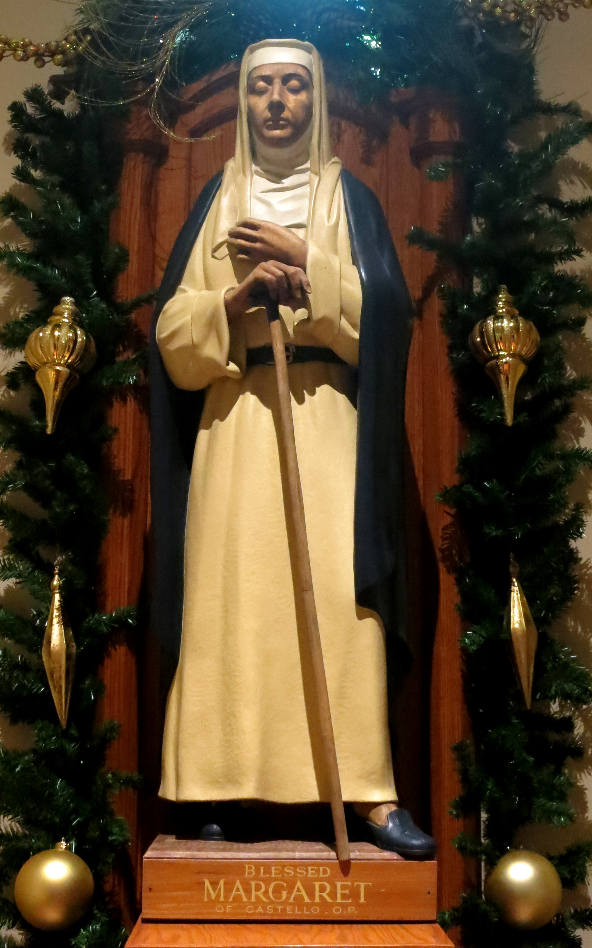 Saint Patrick Catholic Church (Columbus, Ohio) - Blessed Margaret of Castello statue